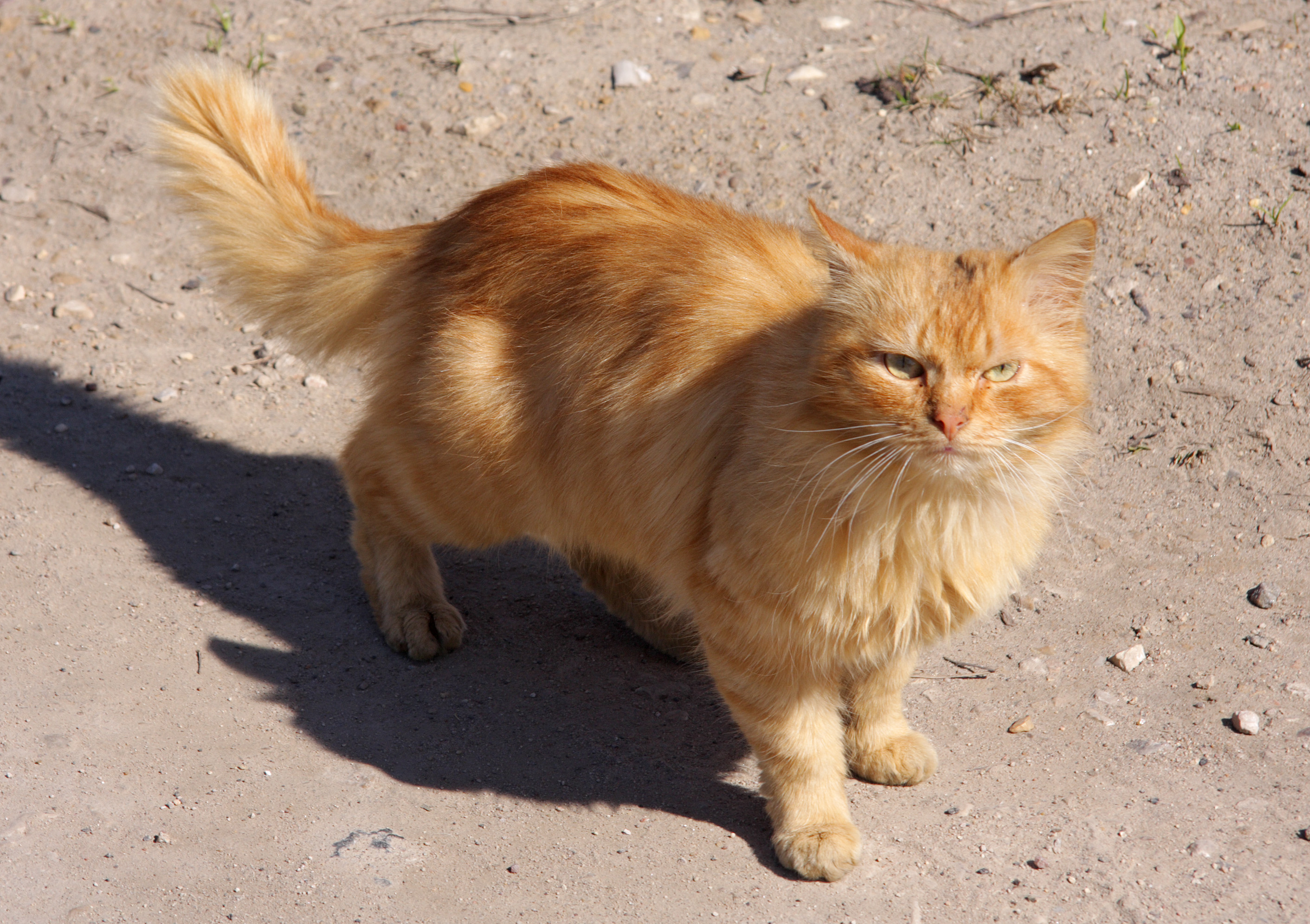 Red cat which I shot in the City of Torzhok